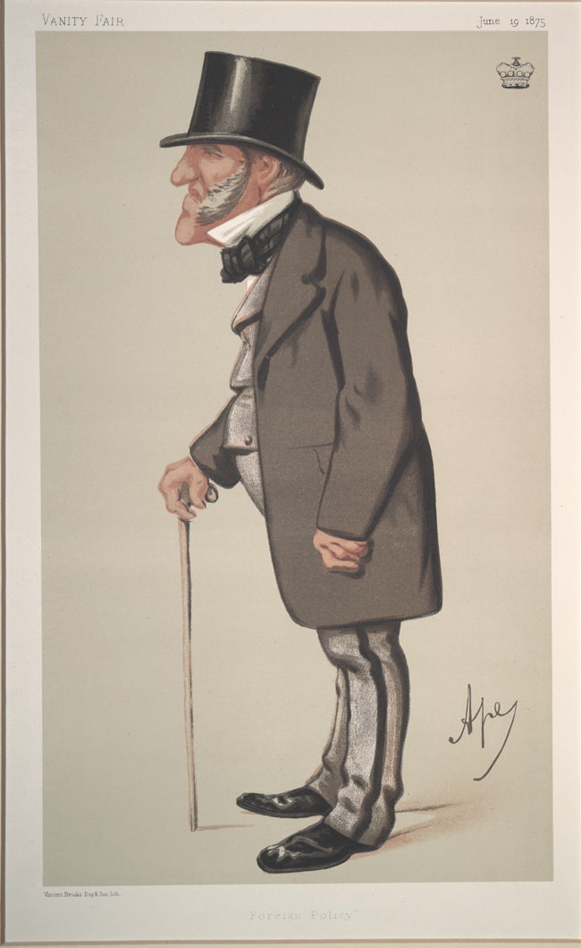 Statesmen No.206: Caricature of Lord Hammond. Caption reads: "Foreign Policy"